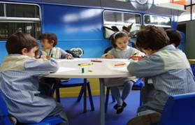 Atividades